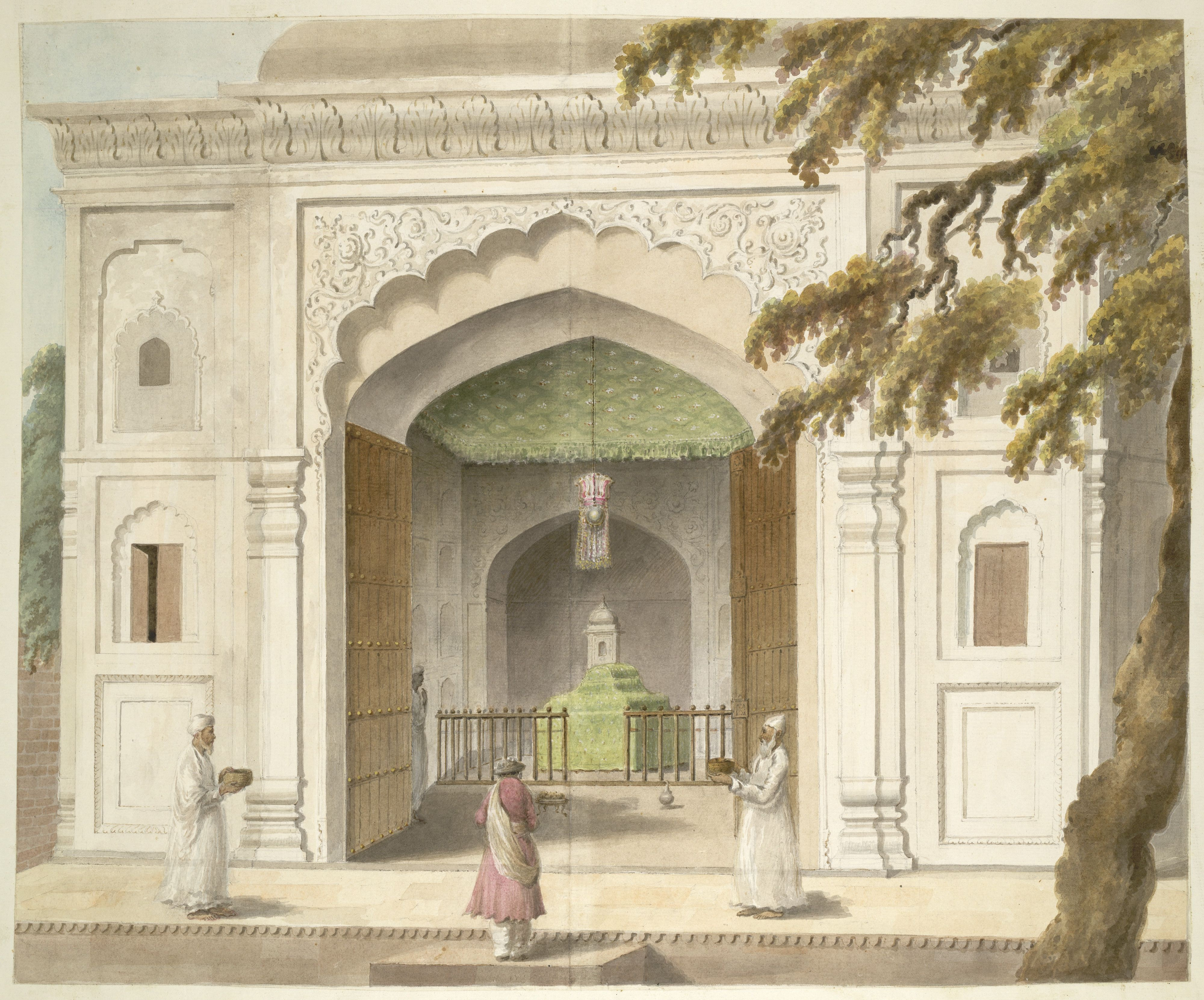 The mausoleum of Rohilla chief, Hafiz Rahmat Khan at Bareilly, India. Hafiz Rahmat Khan was killed in battle in 1774 at Miranpur Katra, the battle of St. George, fighting against Colonel Champion. Watercolour, made in 1814-15.